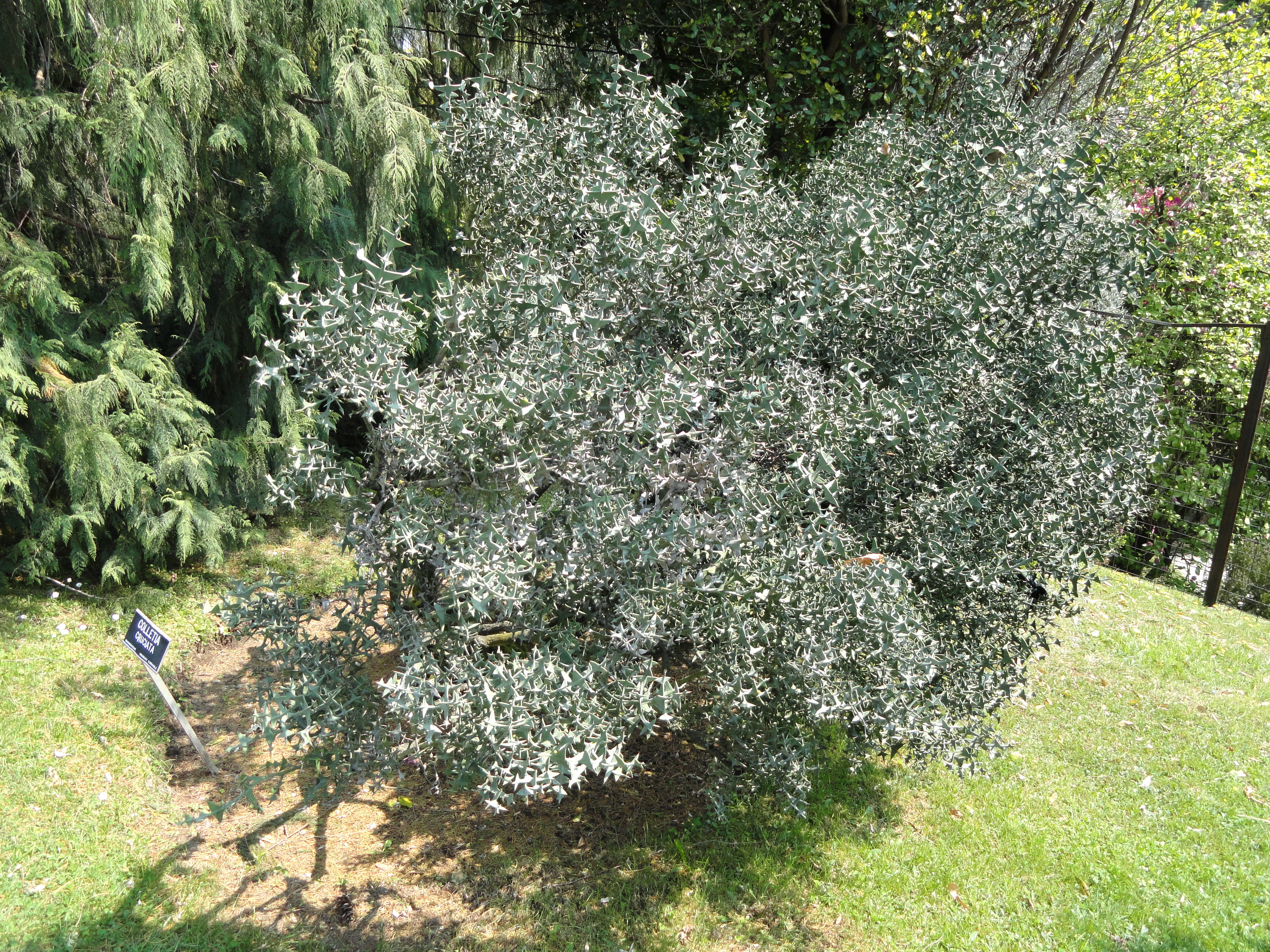 Colletia paradoxa (syn. C. cruciata). Botanical specimen on the grounds of the Villa Taranto (Verbania), Lake Maggiore, Italy.